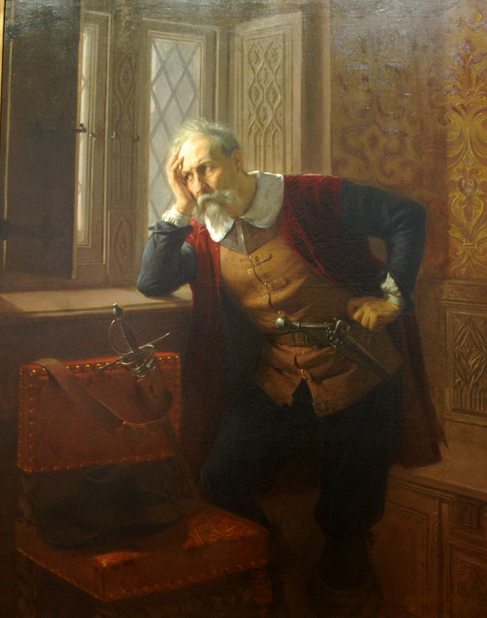 L'Innominato (The Nameless), a character from Manzoni's "The Betrothed" , GAM Torino